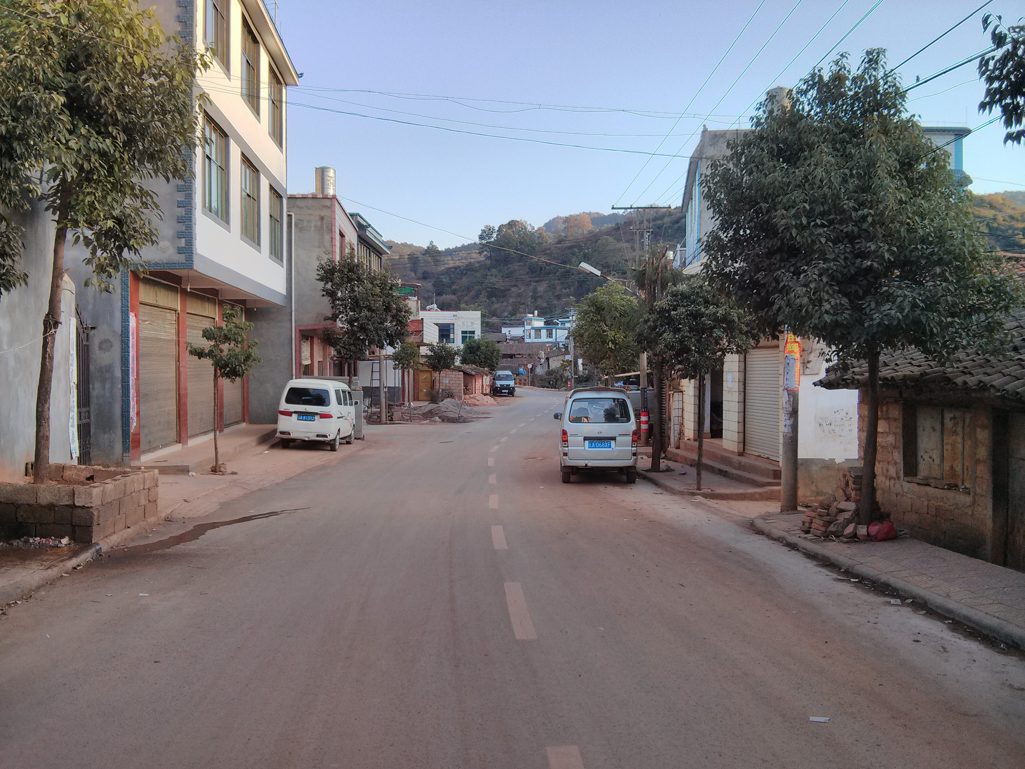 Main street in the village of Hekouxiang (河口乡) in Yunnan province in China on November 24 2013.